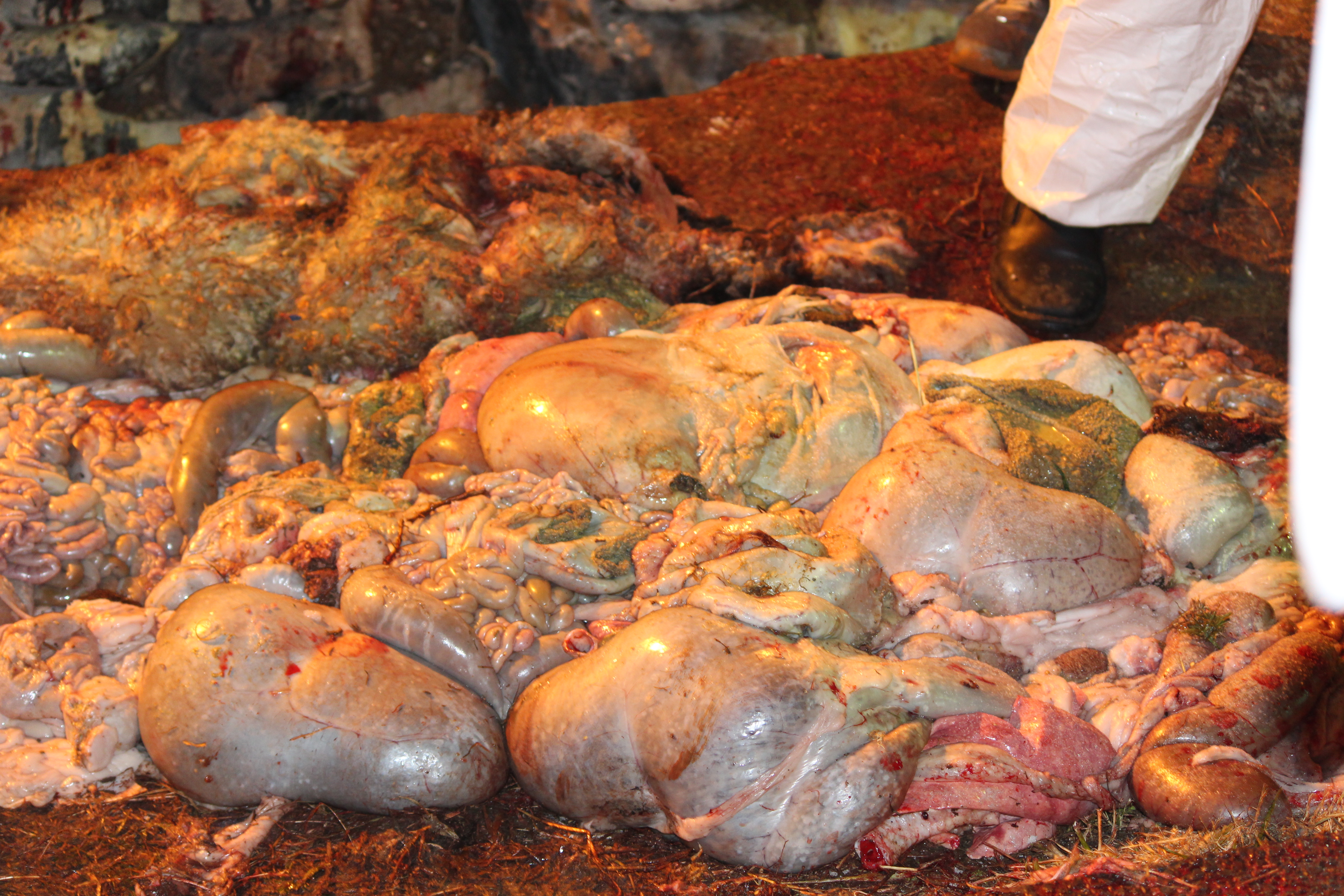 The Samaritan Passover sacrifice (Korban Pesach) - Mount Gerizim